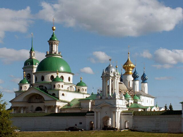 Spaso-Jakovlevskij Monastery